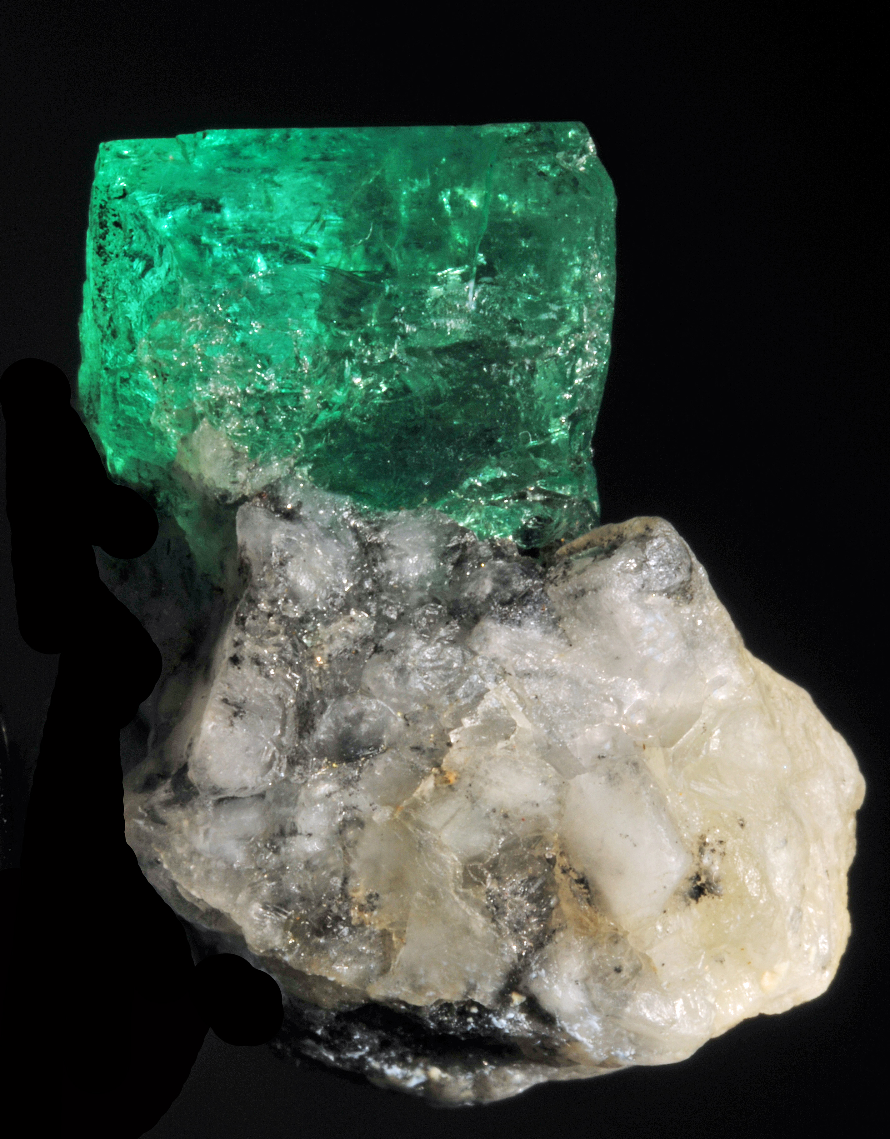 beryl var. emerald, calcite : Muzo Mine, Mun. de Muzo, Vasquez-Yacopí Mining District, Boyacá Department, Colombia